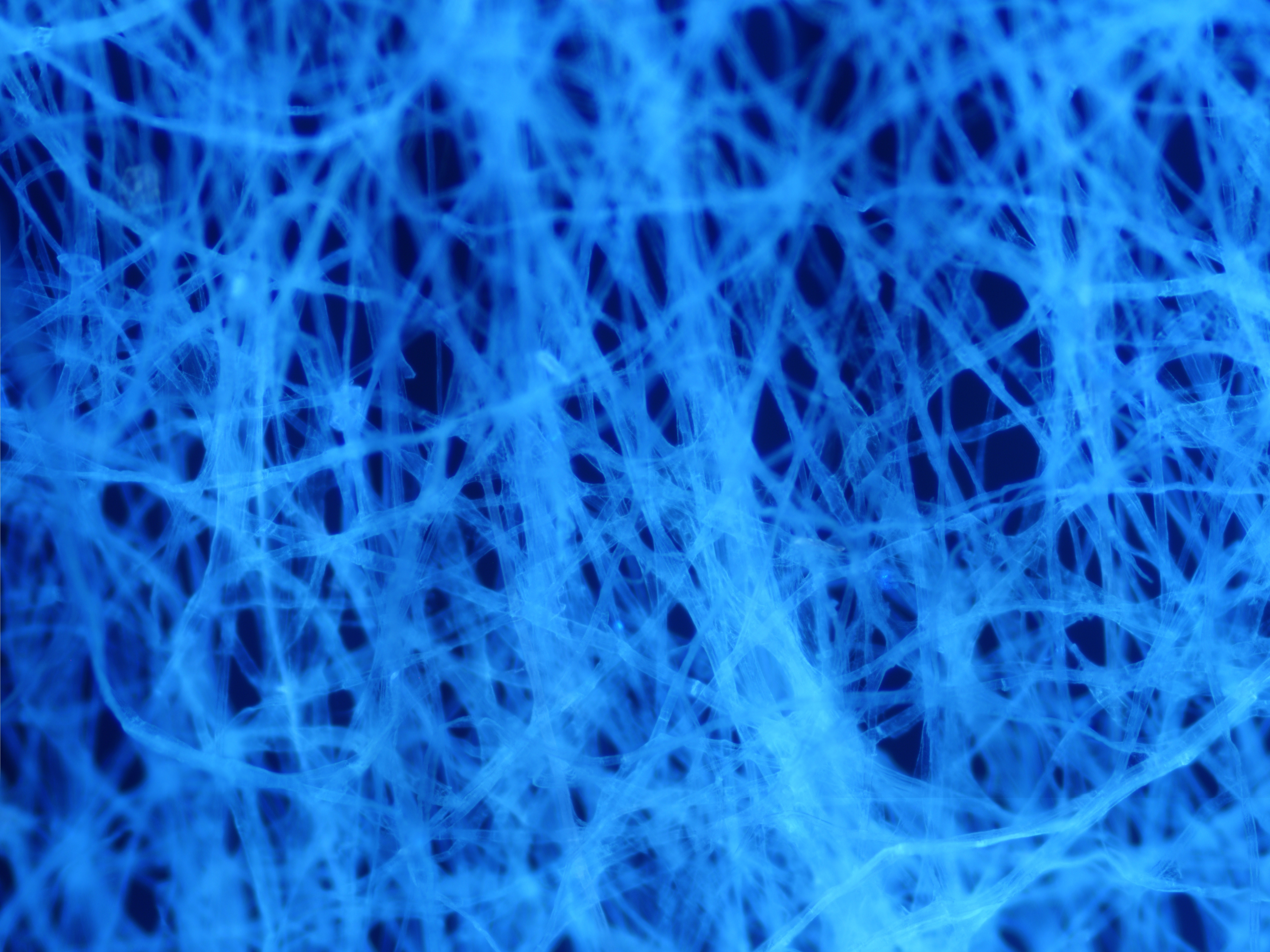 Micrograph of tissue paper. Illumination is by ultraviolet light causing autofluorescence of the fibres, the image was captured through a blue filter to block direct illumination. 9 images manually stitched into a panorama. Individual fibres are ~10 μm wide.